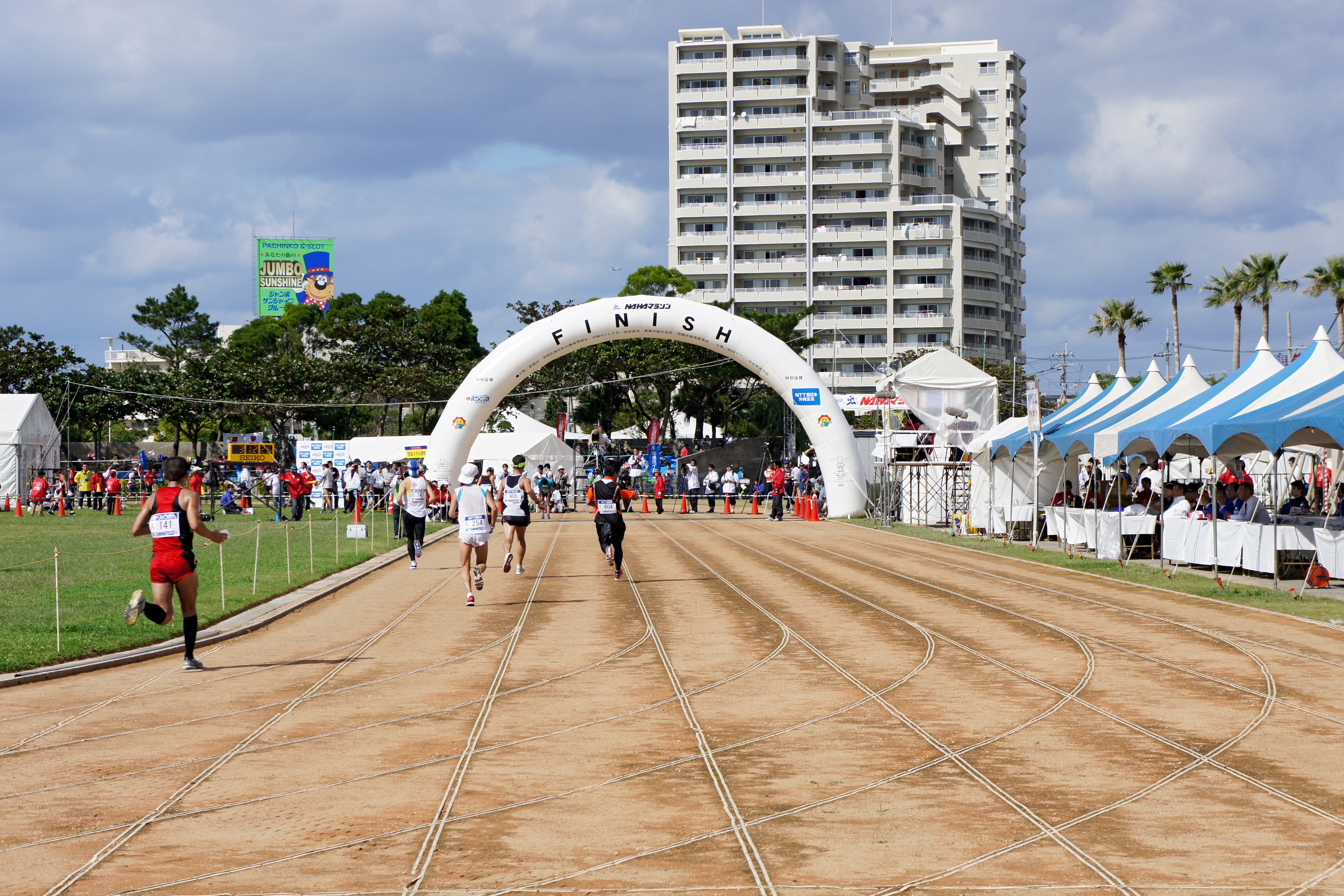 NAHA_Marathon, at Naha, Okinawa prefecture, Japan